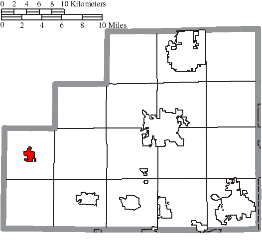 Map of the municipal and township boundaries of Medina County, Ohio, United States, as of the 2000 census, with the location of the village of Spencer highlighted. Township borders are shown only in unincorporated areas in order to differentiate incorporated and unincorporated areas more clearly.